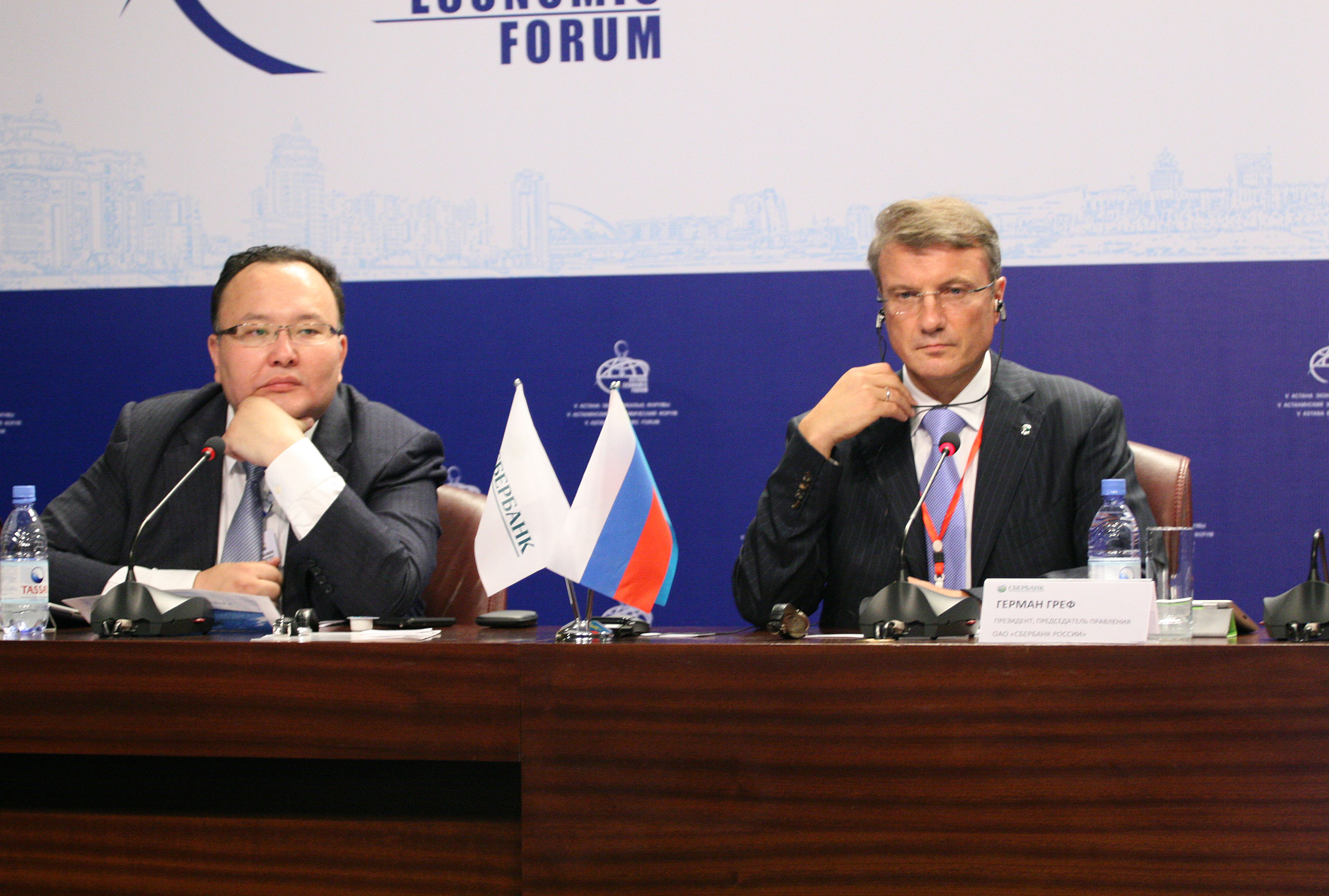 Kuanyshbek Esekeev and German Gref